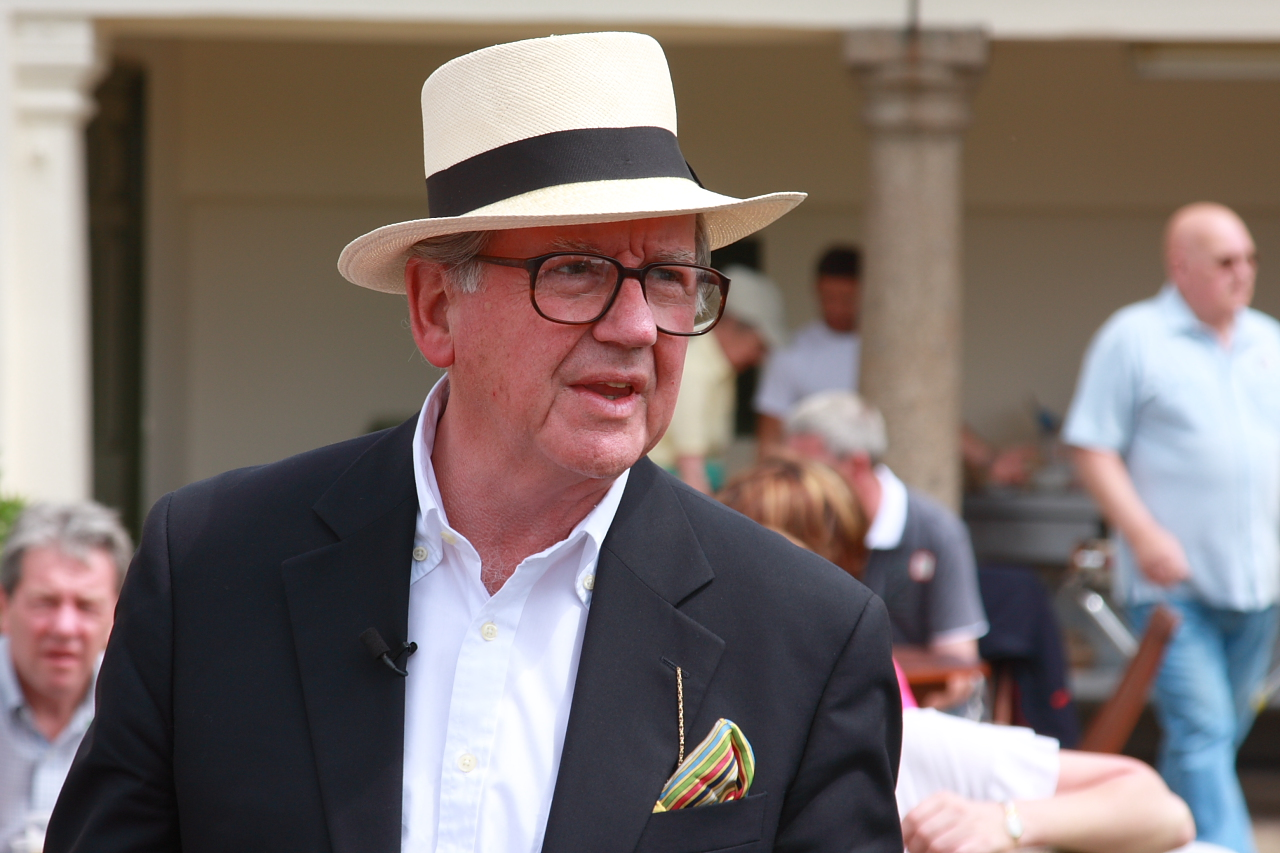 John Bly at the BBC's Antiques Roadshow, at Samarés Manor, in Jersey, Channel Islands.